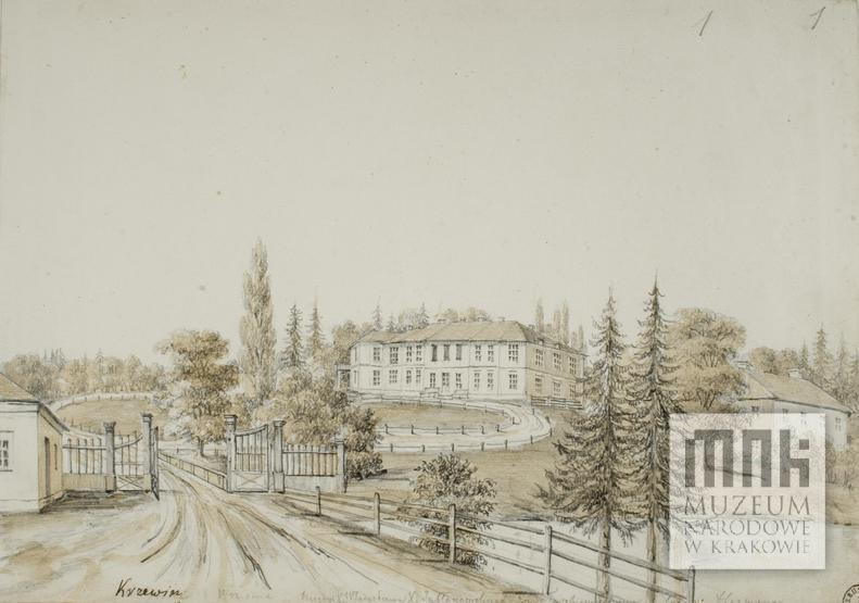 Napoleon Orda. Yablonovsky Palace